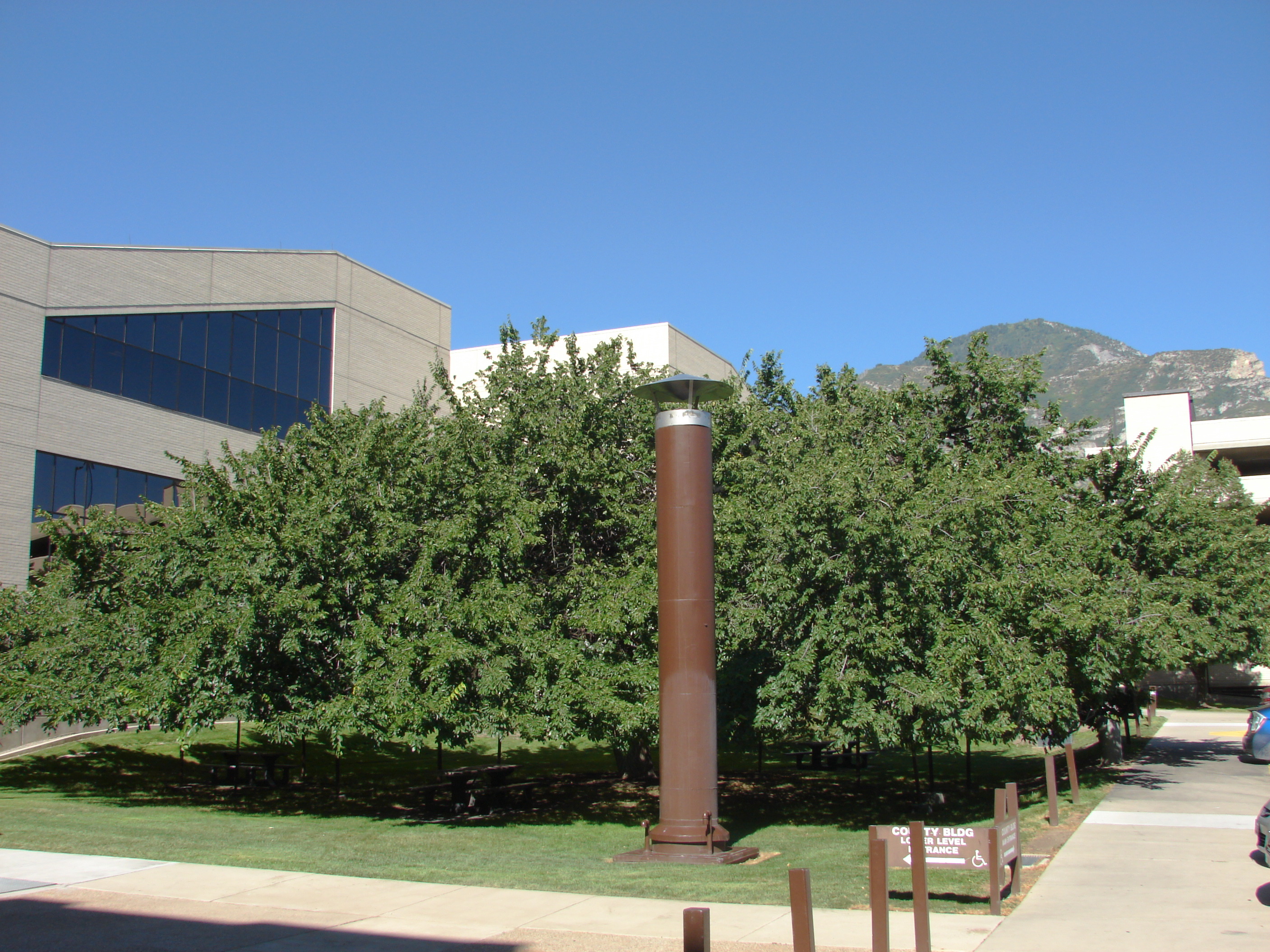 Looking east the Ulmus Americana (also know as the Tabletop Elm or Weeping American Elm) in Provo, Utah, July 2015. (In addition to the picnic tables under the tree, the branch supports are slightly visible as well.) The Utah County Administration Building on the left and the Utah State Government Provo Regional Center on the right.